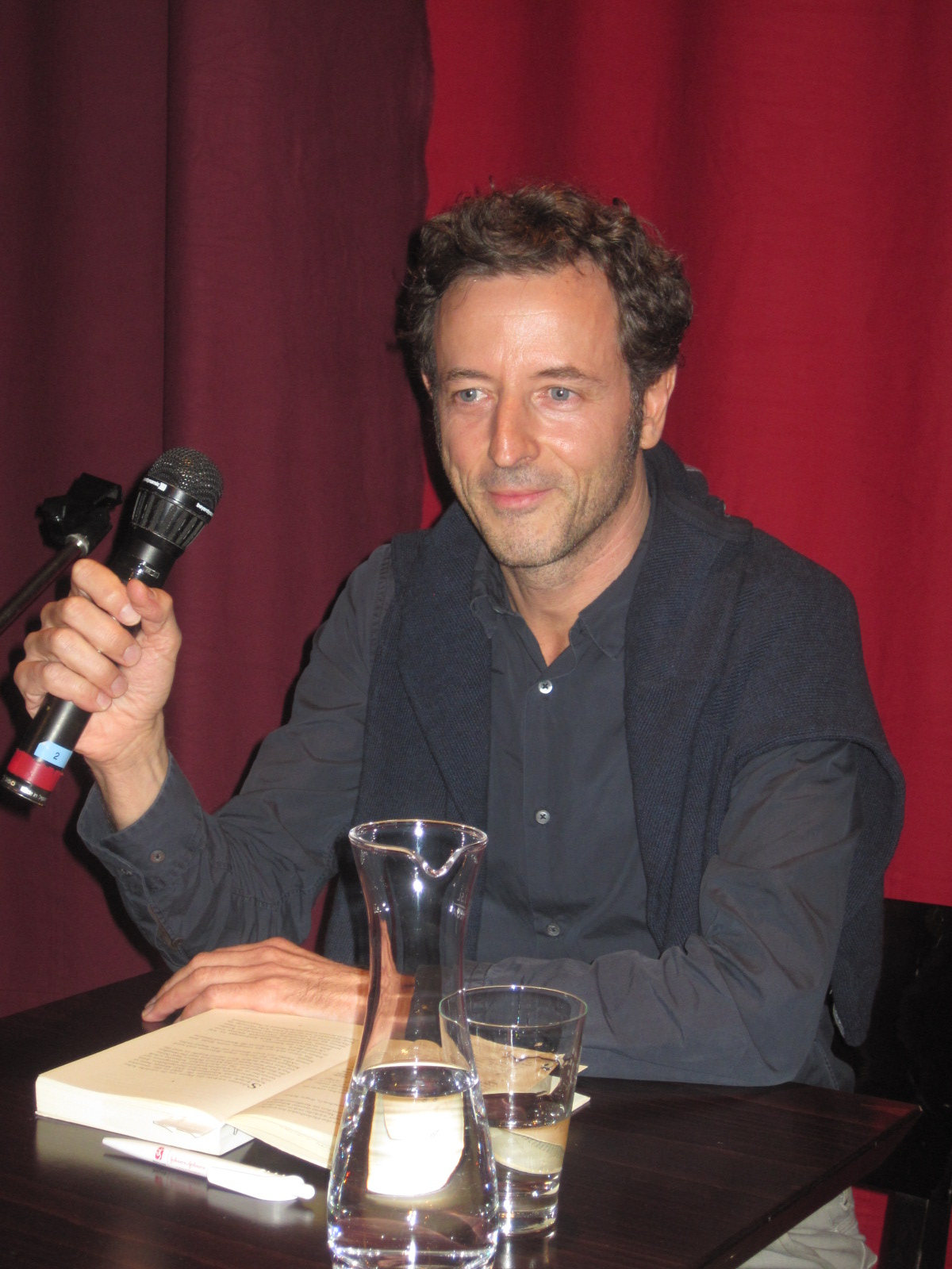 Friedrich Doenhoff, German writer, 2013 in Marburg, Germany.